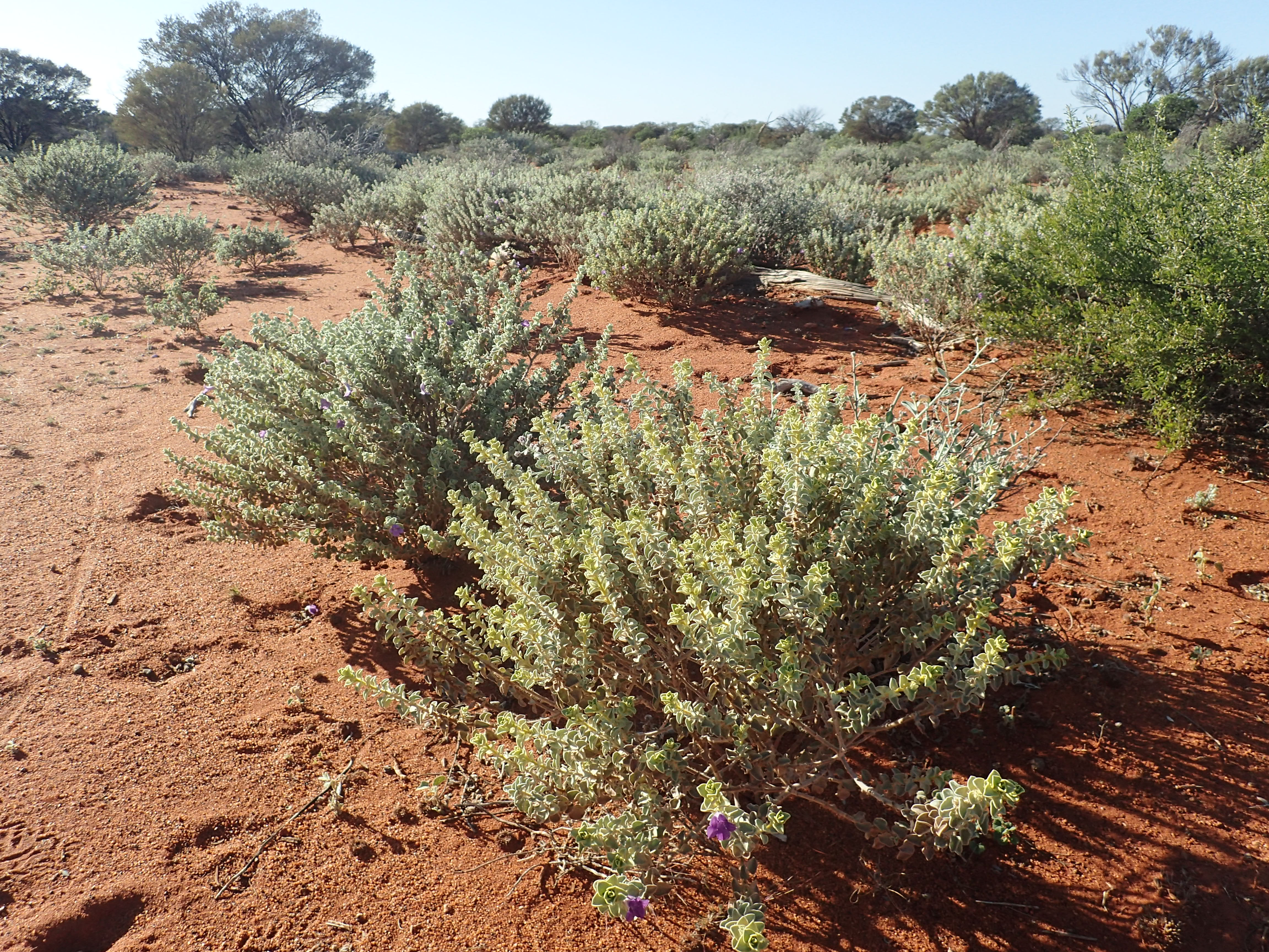 Eremophila mackinlayi spathulata growing about 12km along Mooloogool Road